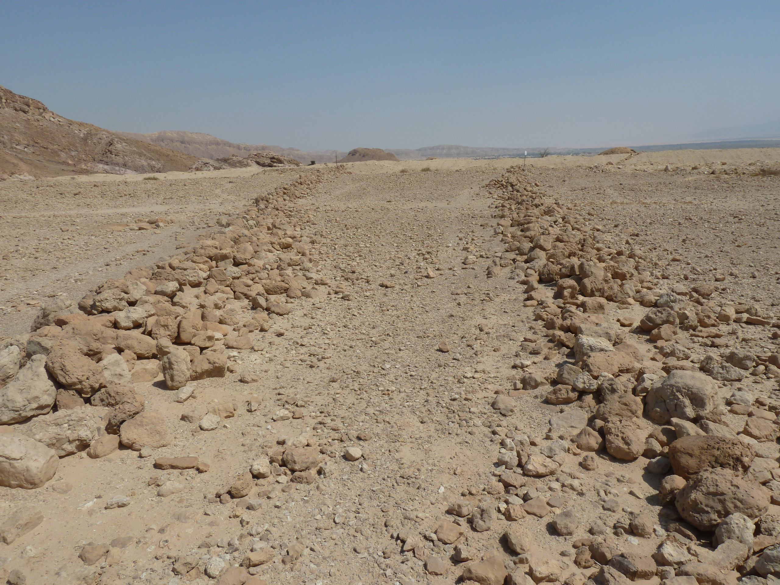 desert kite